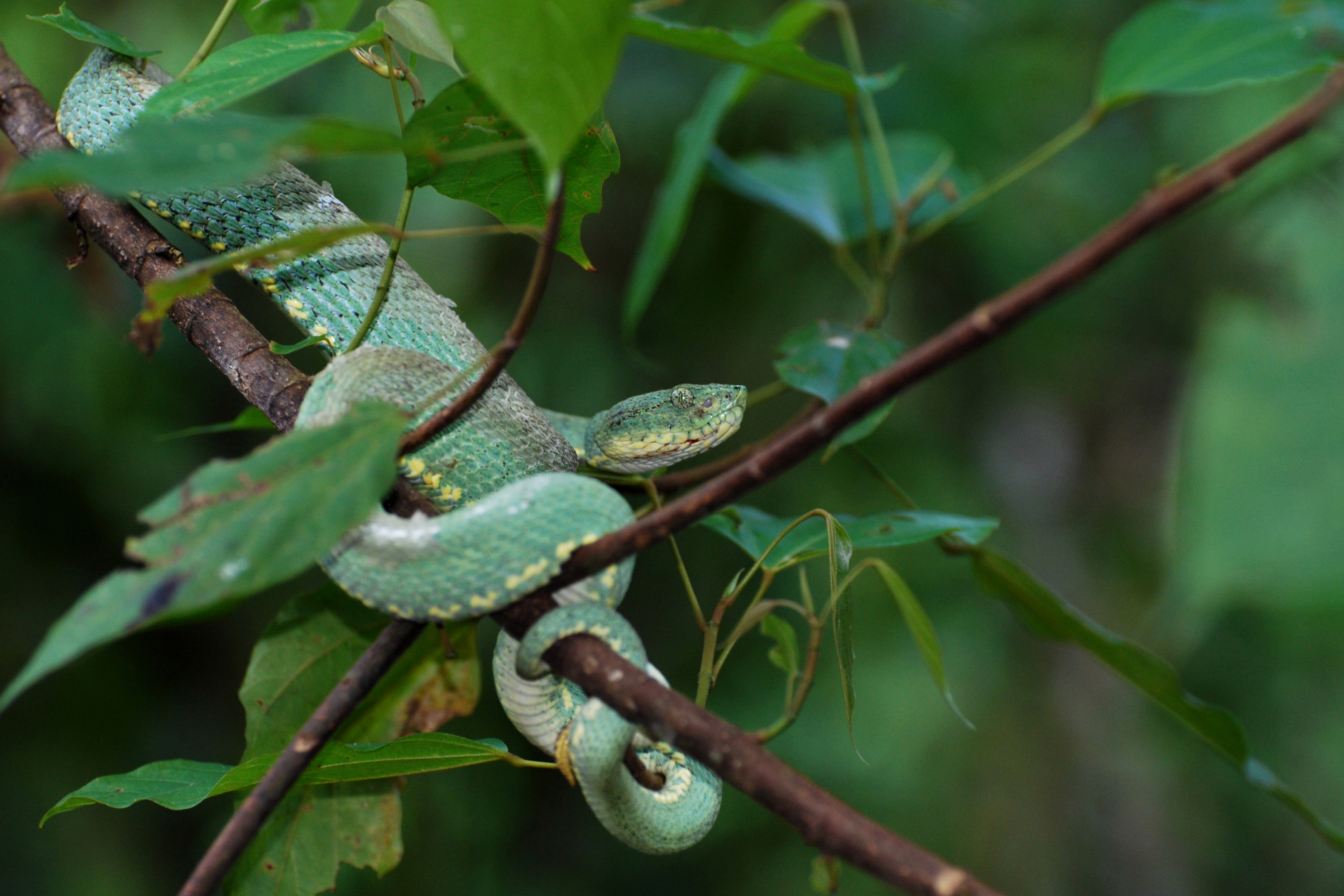 A two-striped forest pitviper (Bothriopsis bilineata smaragdinus) in Yasuni National Park, Ecuador.